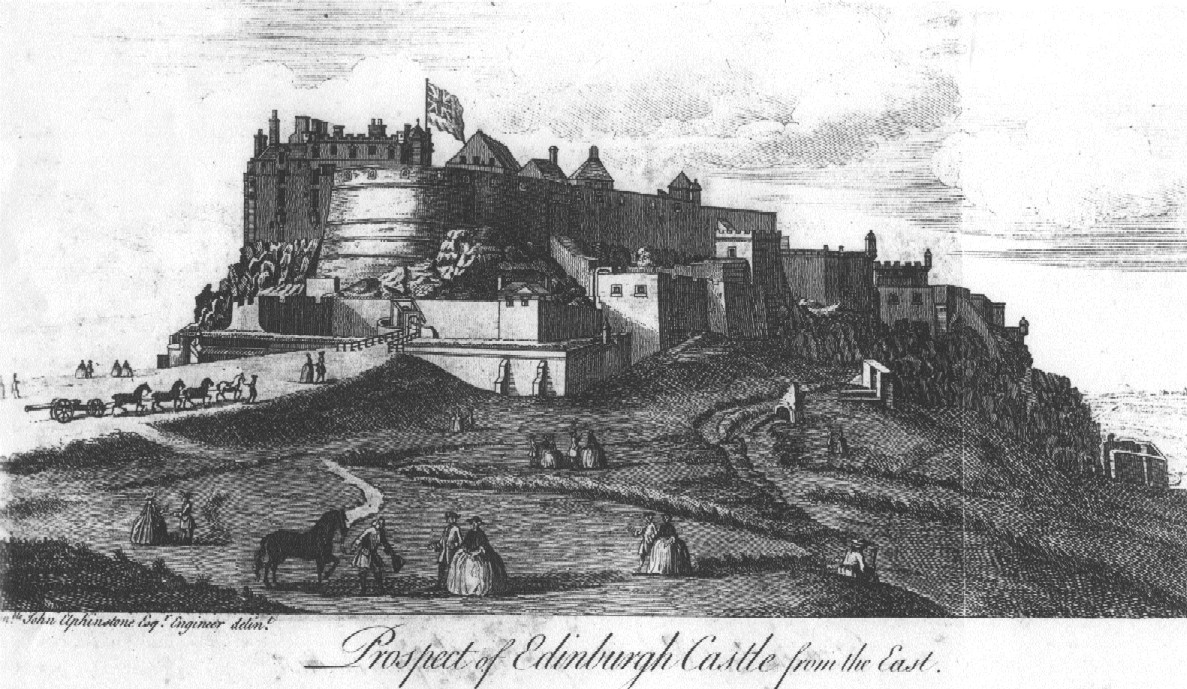 An engraving published in Maitland's History of Edinburgh, 1753. The approach to the Castle, known as the Esplanade, was begun in 1753 with soil excavated from the site of the new Royal Exchange (modern City Chambers).